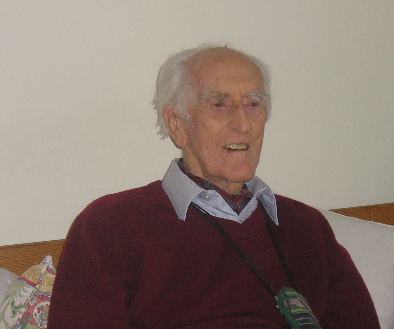 Richard sharp, funny and philosophical about life.